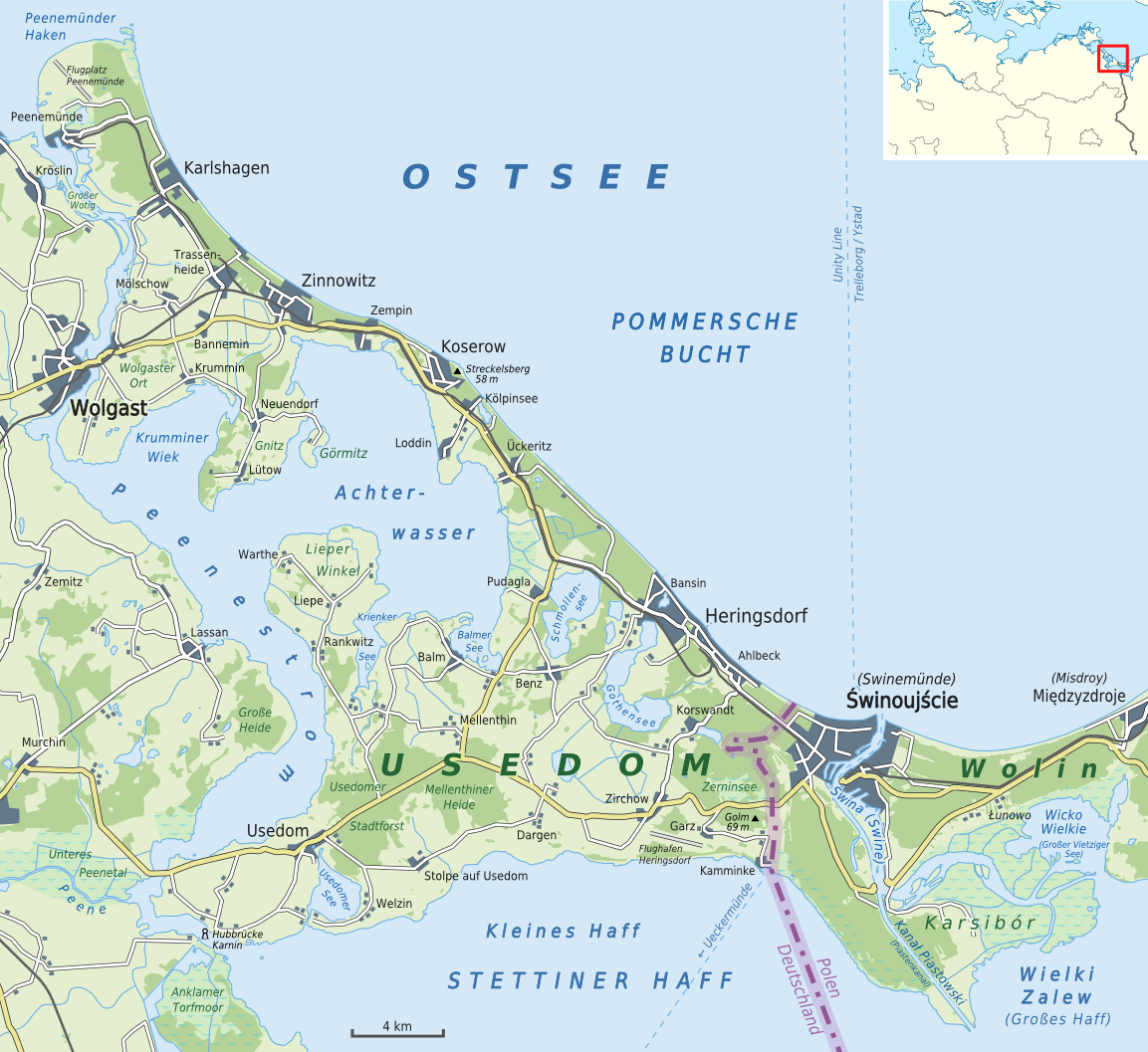 Map of Usedom Island with its most important municipalities